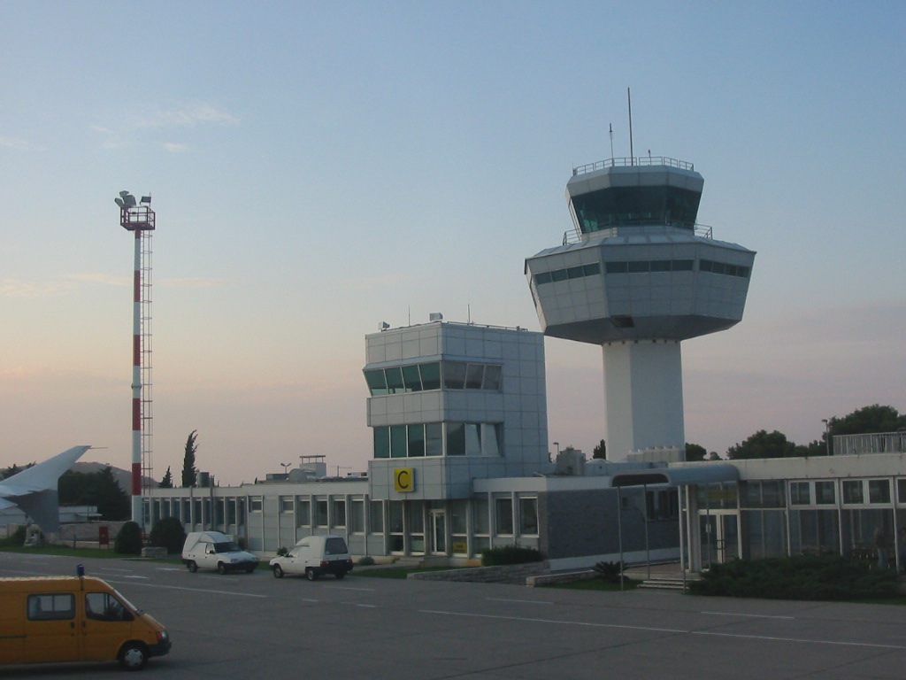 Croatia Dubrovnik airport in 2002